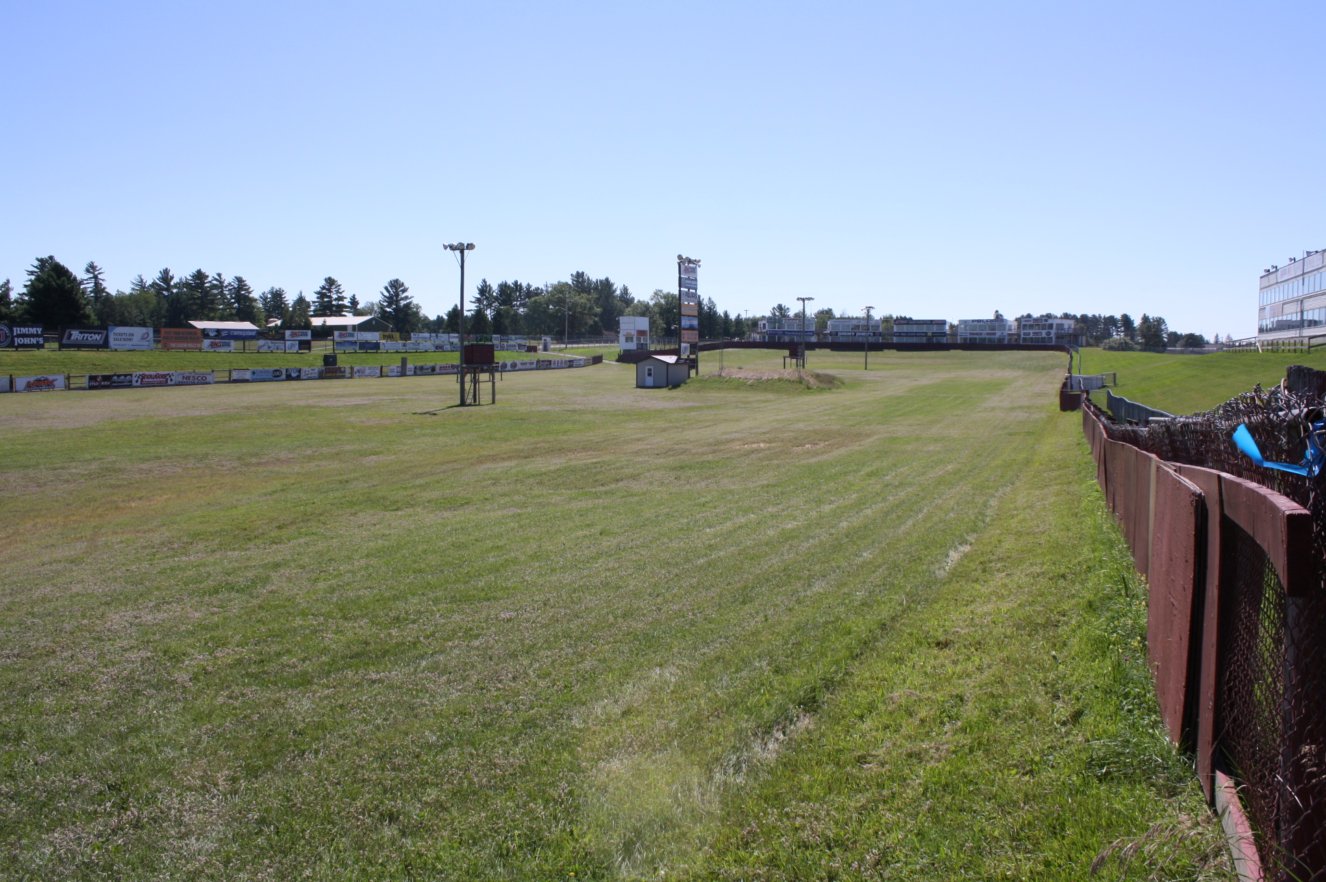 Looking south down the frontstretch for the Eagle River Derby Track in summer. The track hold the world championship snowmobile race in winter.